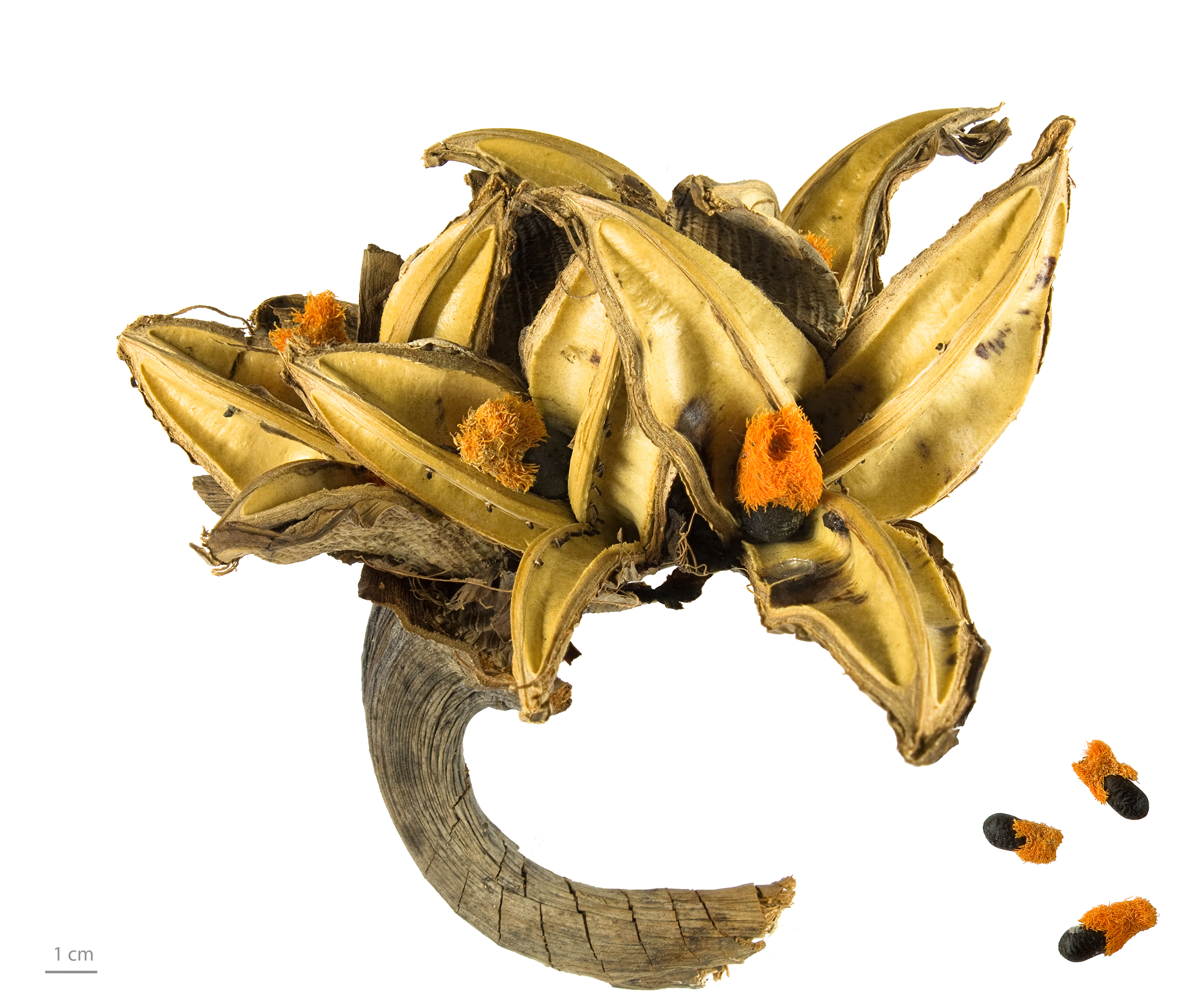 Crane Flower, fruits and seeds